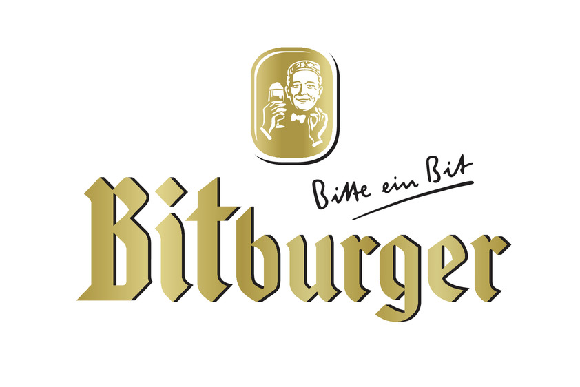 Bitburger Brewery (logo)